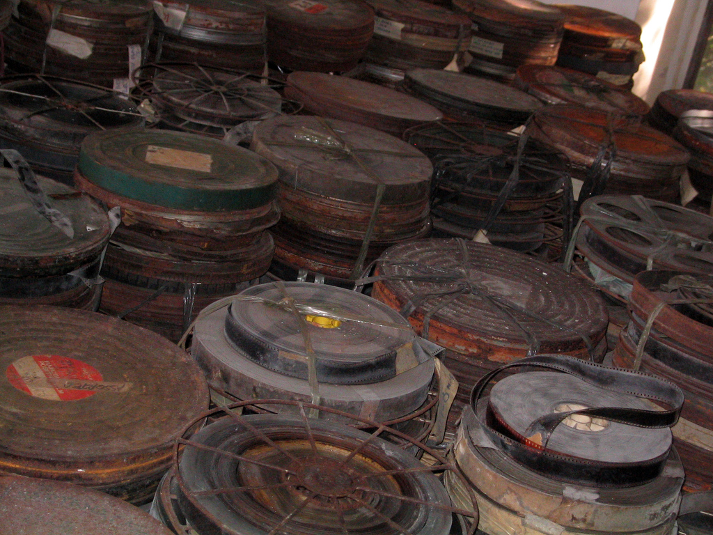 The film is vinegaring, though. That is to say, it is decaying very quickly and releasing a vingear-scented acid into the air. This is why it is hard to get older Filipino films...and why finding films like ZAMBOANGA is a miracle.